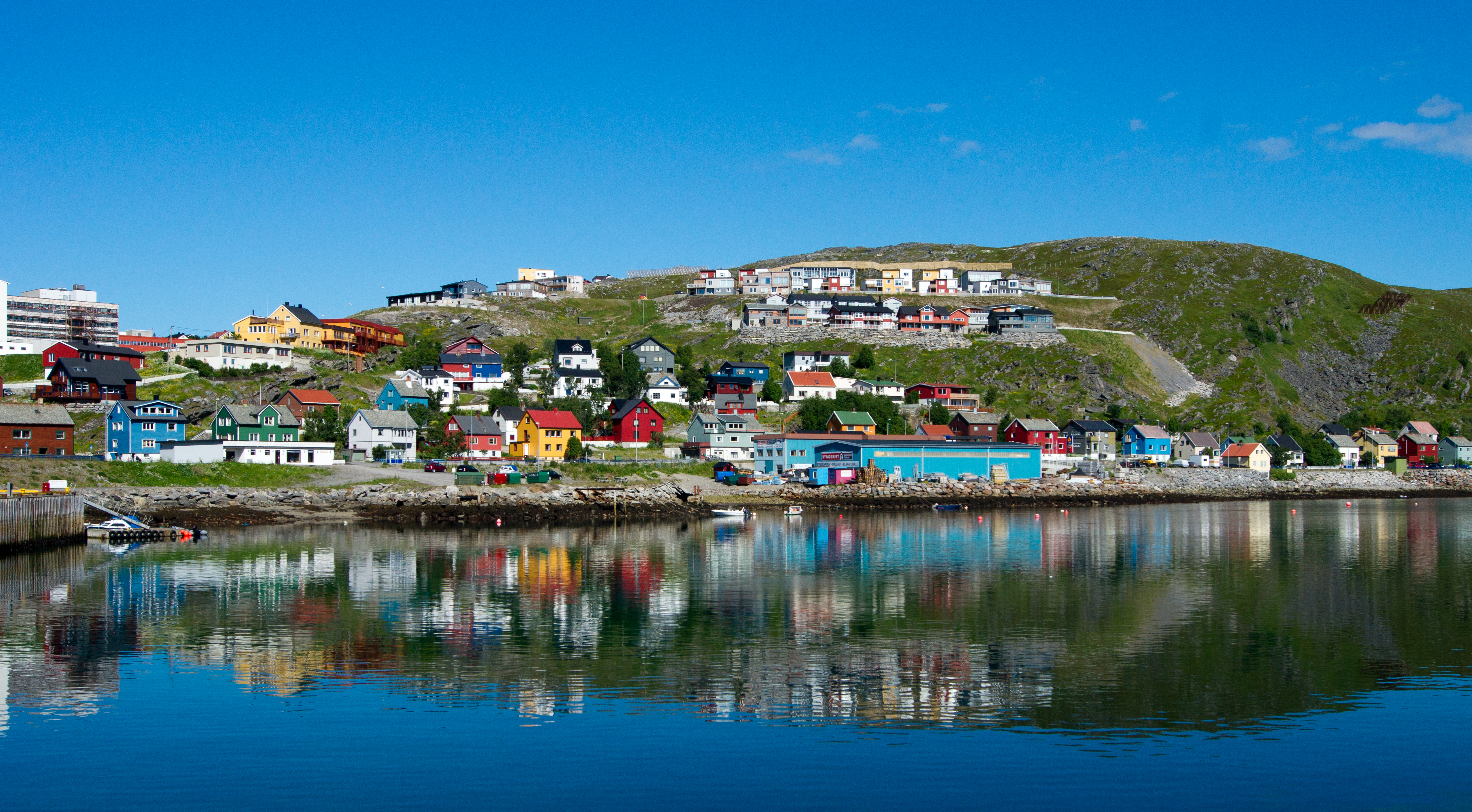 Hammerfest, in Norway.